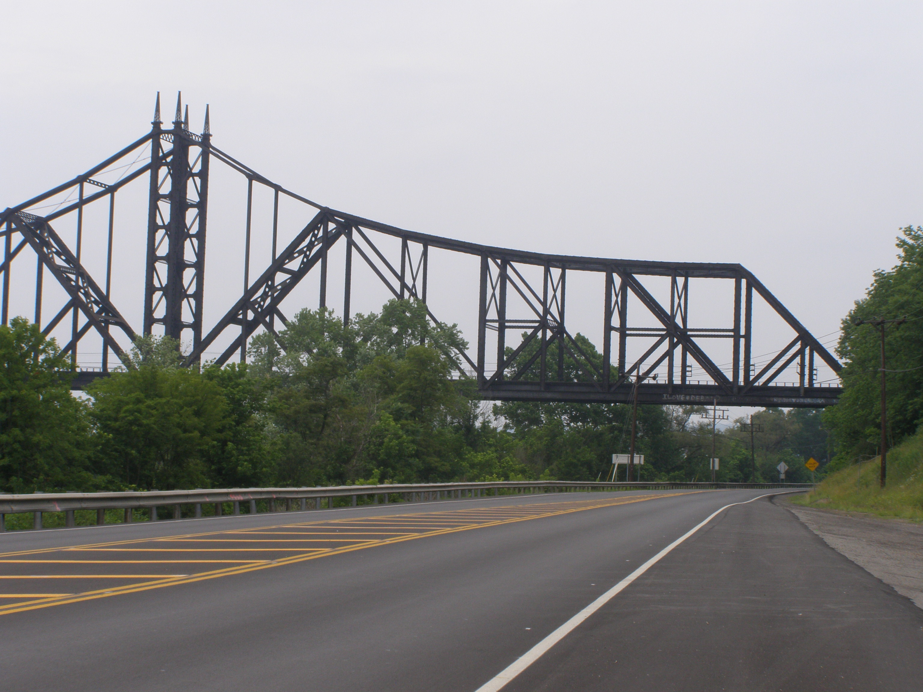 Railroad bridge over the Ohio River nr Mingo Junction (OH) and Rockdale, WV.